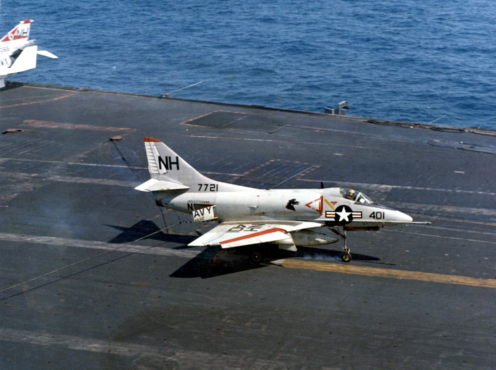 A U.S. Navy Douglas A-4C Skyhawk (BuNo 147721) of Attack Squadron VA-112 "Broncos" landing aboard the aircraft carrier USS Kitty Hawk (CVA-63) off Vietnam. VA-112 was assigned to Carrier Air Wing 11 (CVW-11) aboard the Kitty Hawk for a deployment to Vietnam from 18 November 1967 to 28 June 1968.